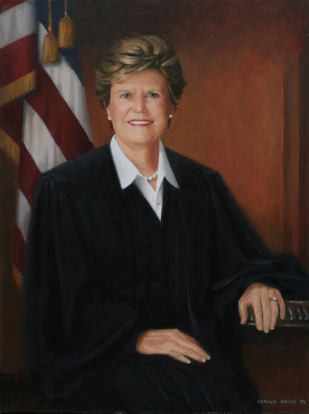 Eleventh Circuit Judge Susan H Black